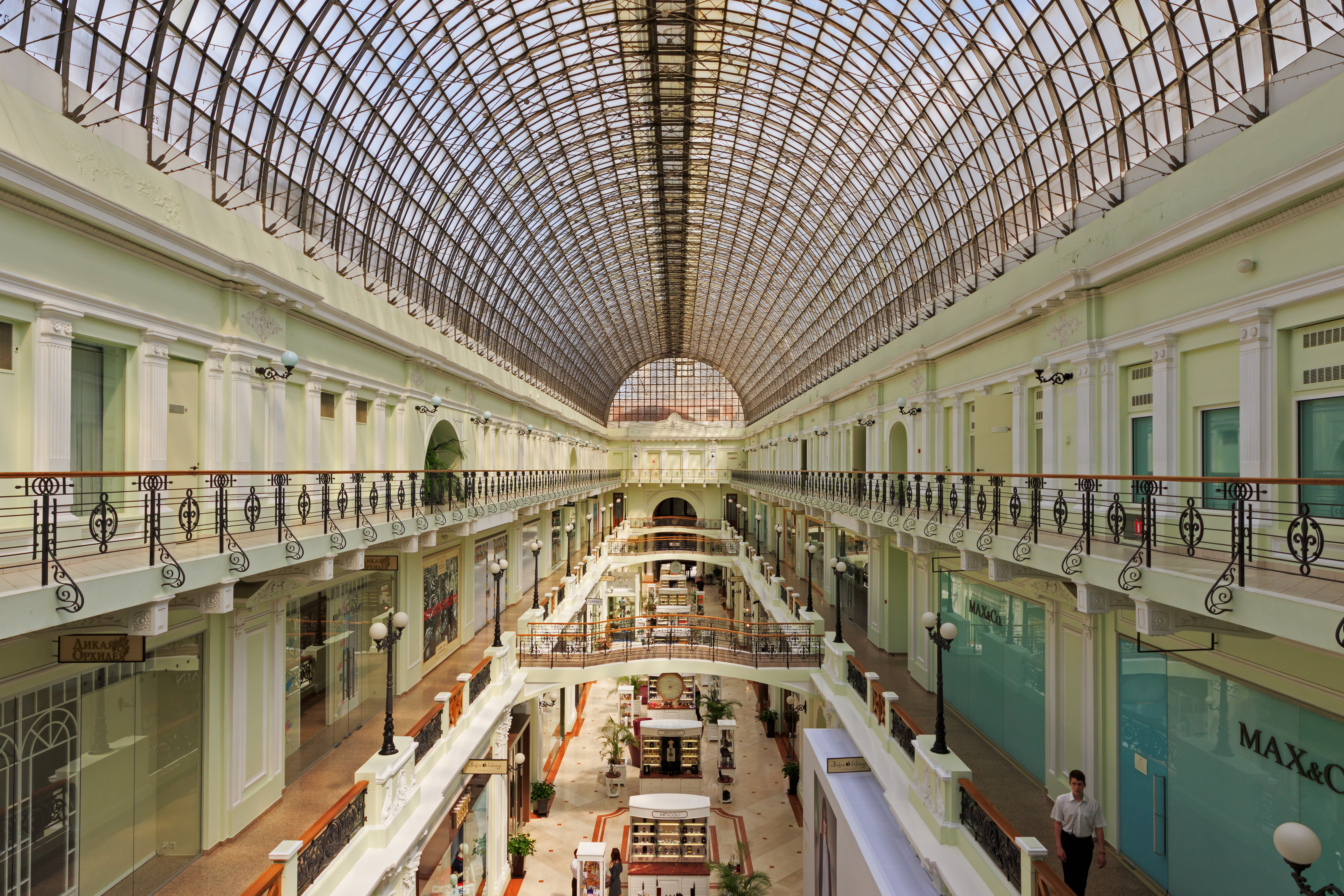 Interior of Petrovsky Passage in Moscow.